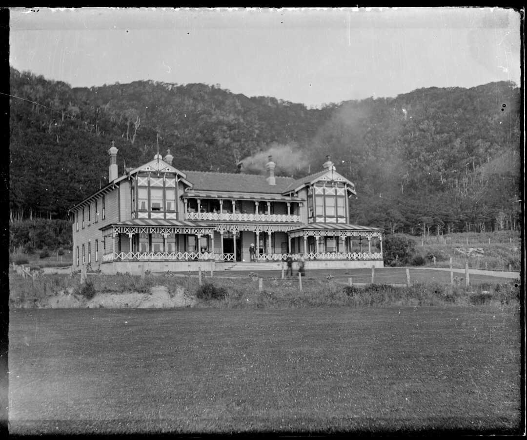 Day's Bay House circa 1903